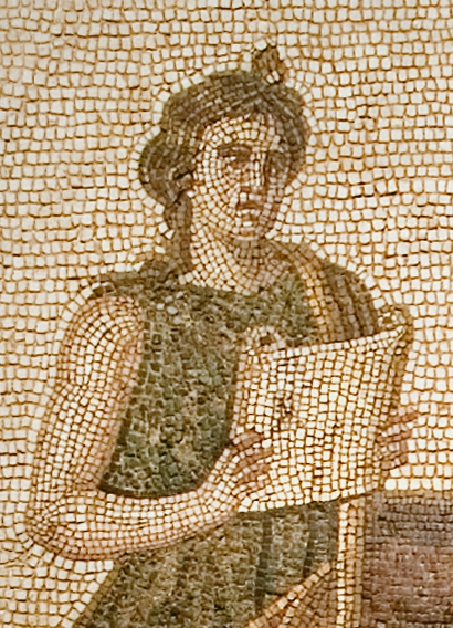 Virgil mosaic in the Bardo National Museum